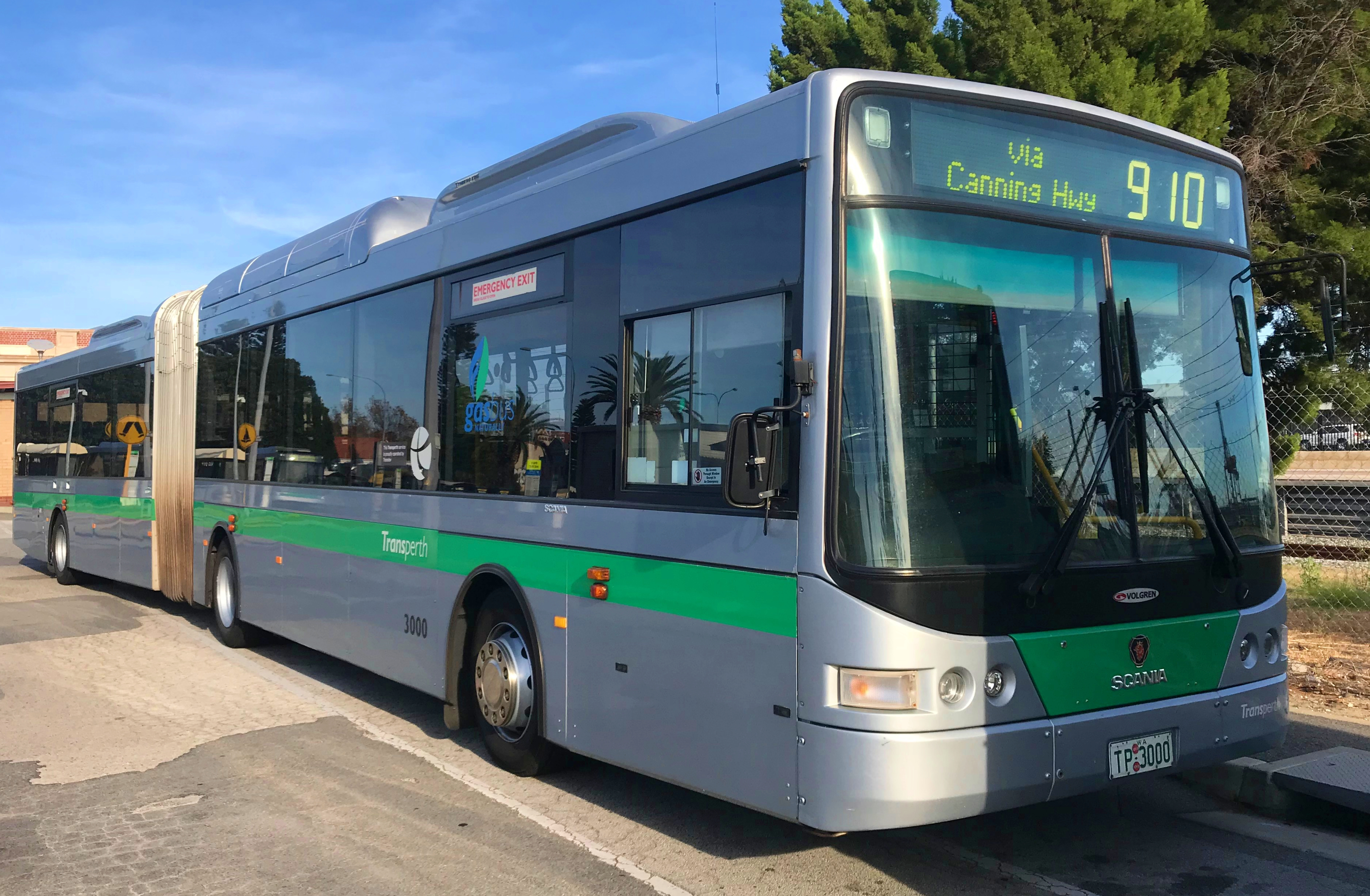 Transperth Volgren CR228L bodied Scania L94UA CNG articulated bus operating under Transdev.